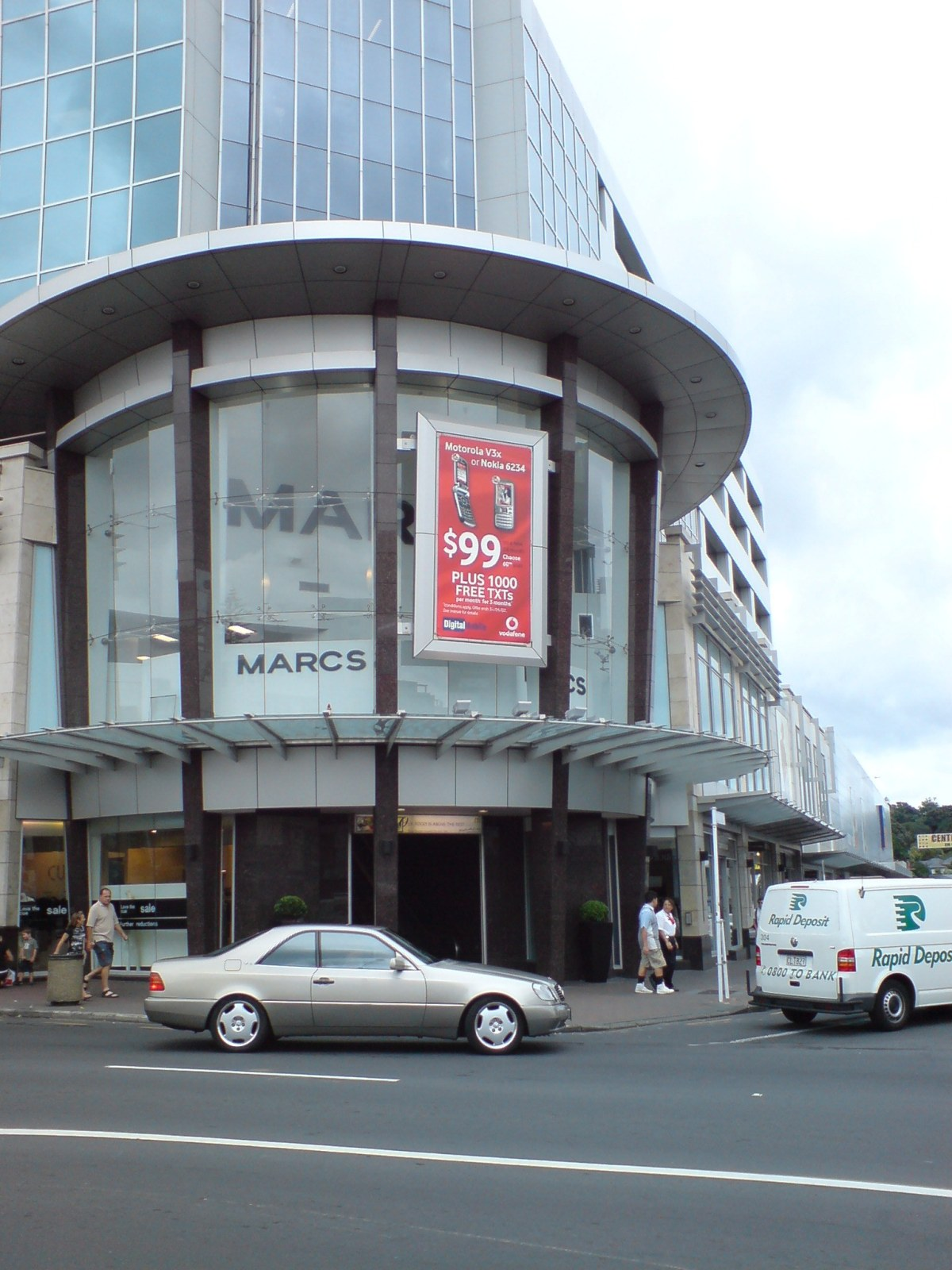 Northeast entry (onto Broadway on the corner with Morrow Street) to the Two-Double-Seven mall in Newmarket, New Zealand).